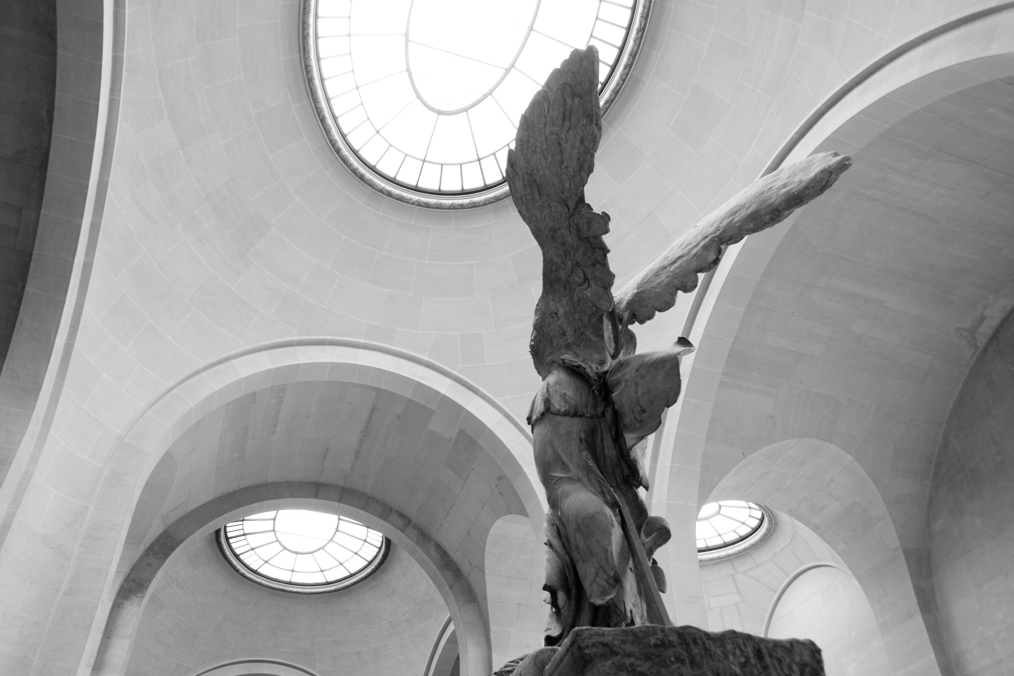 Winged Nike of Samothrace. Parian marble, ca. 190 BC? Found in Samothrace in 1863.